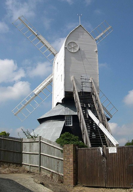 Photograph of Windmill Hill Windmill, Herstmonceux after restoration